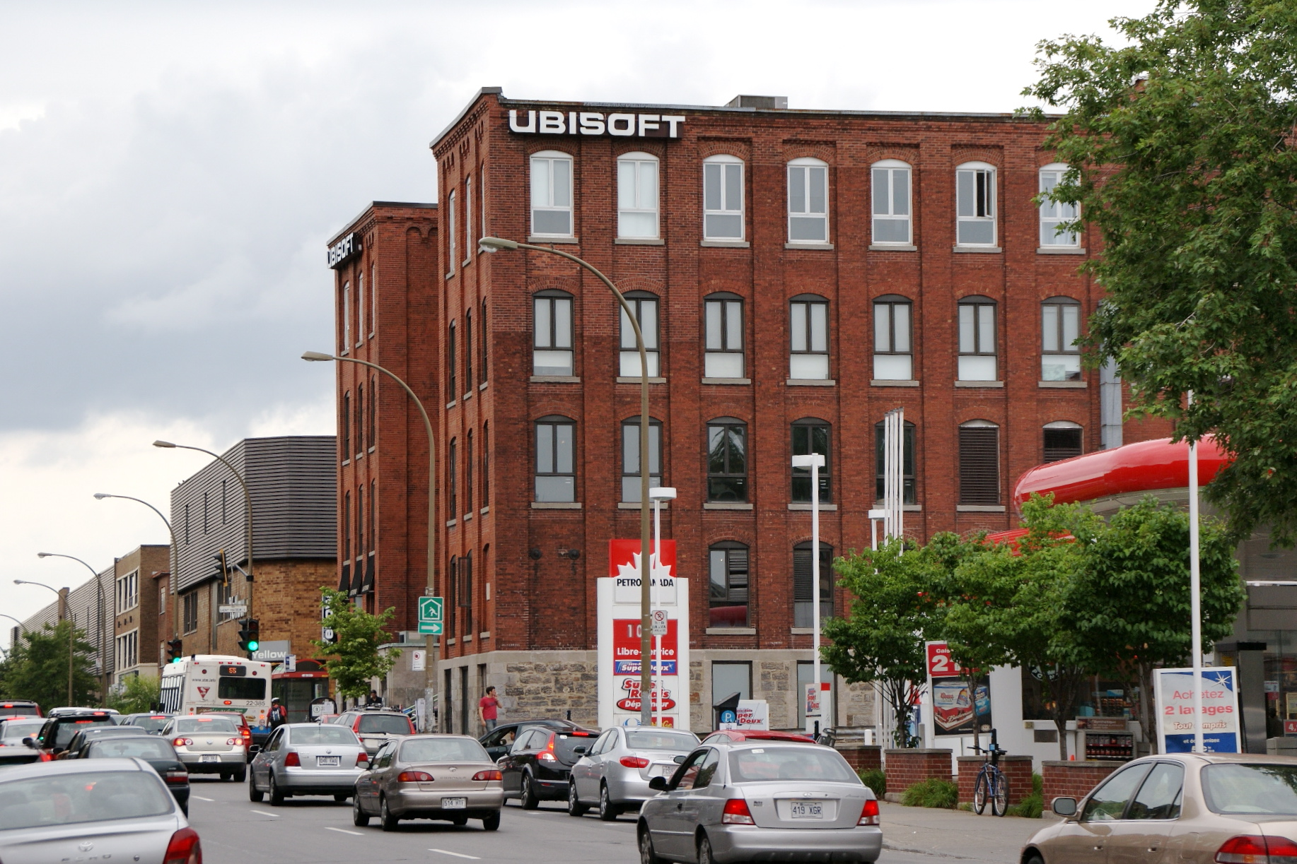 Ubisoft office in Montreal, 5505 Saint-Laurent Boulevard